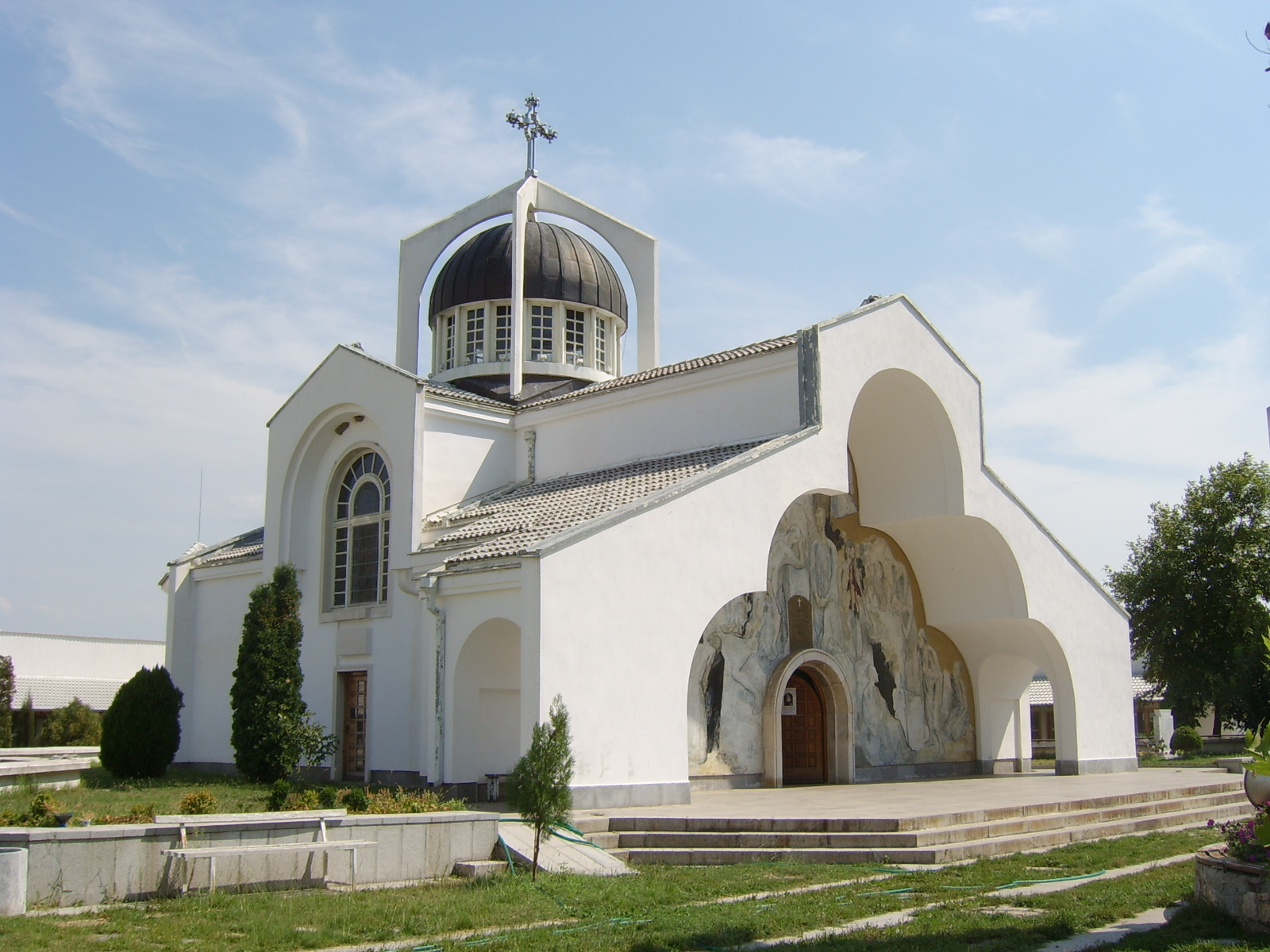 Temple "Sveta Petka" in Rupite, Bulgaria.